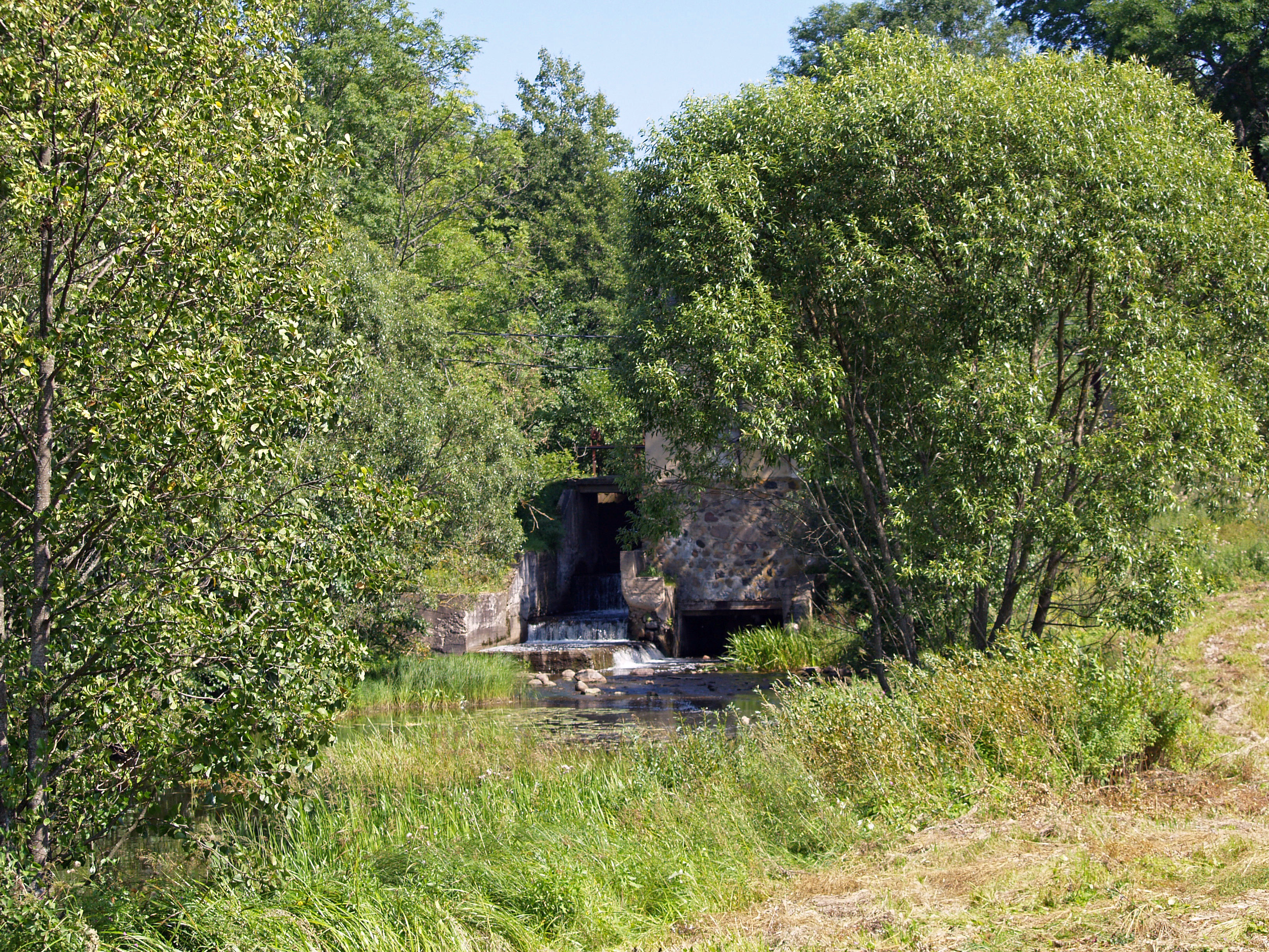 Dzirnavas (Water-Mill)